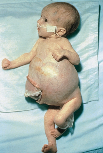 ADRENAL GLAND: STAGE IV-S NEUROBLASTOMA This infant has massive hepatomegaly due to metastatic neuroblastoma. Intra-abdominal pressure is partially relieved by a silastic pouch.